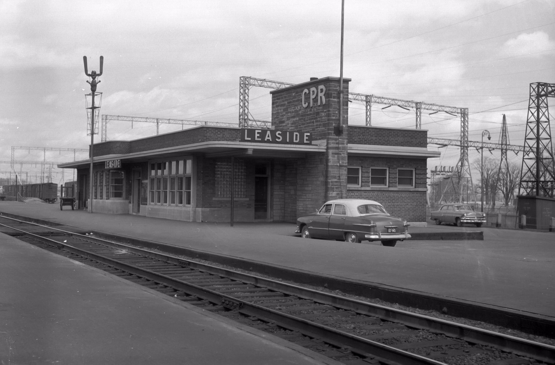 Leaside Station (C.P.R.), e. of Millwood Road, at C.P.R. tracks. James Victor Salmon's silver gelatin print, Acc. S 18-20; laid down on moderate greenish blue album page; 120 x 178 mm.; Inscribed by him in dark purplish blue ballpoint pen, album pane below print: LEASIDE C.P.R. STATION APR. 8 1955 #2626